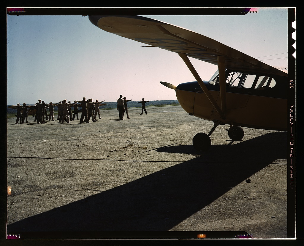 Title: Civil Air Patrol Base, Bar Harbor, Maine